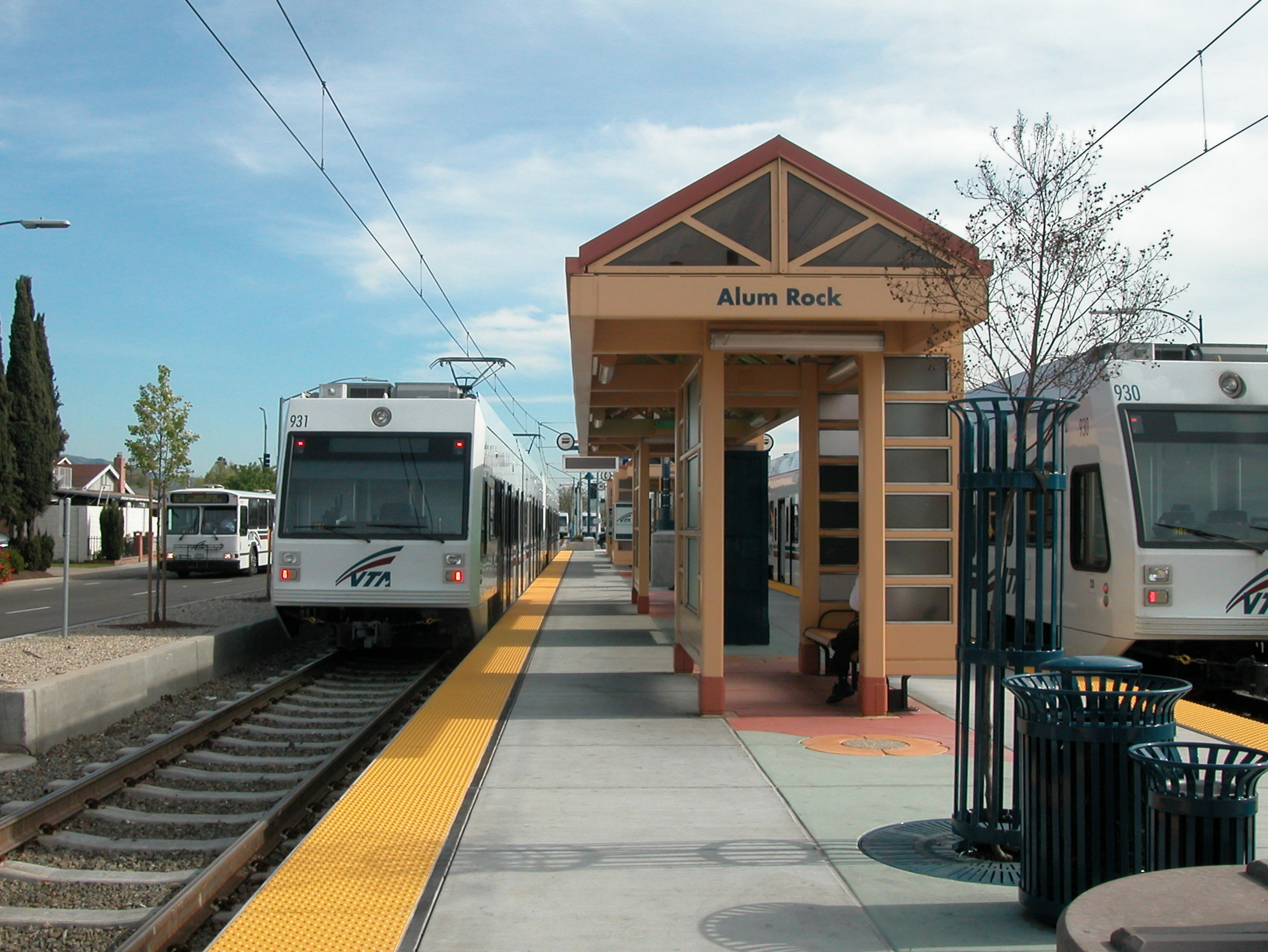 Two VTA trains at Alum Rock station in March 2005